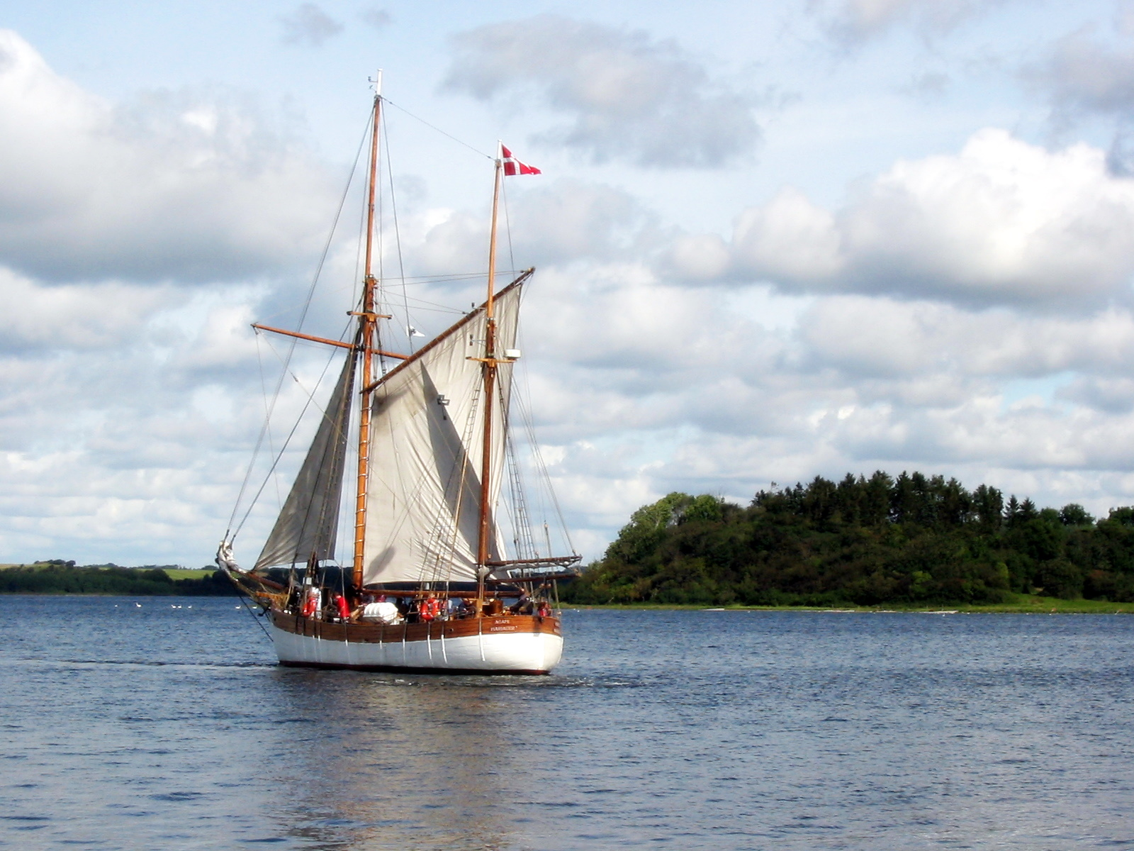 a sailboat on Mariager Fjord - the longest fjord in Denmark